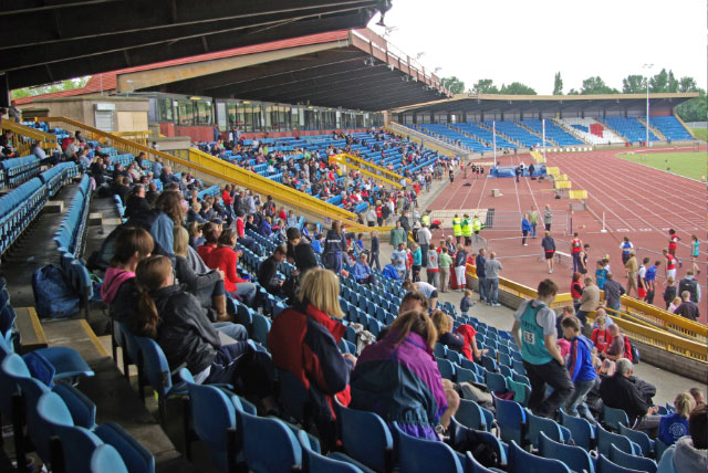 The Alexander Stadium, Perry Park The Alexander Stadium is a major venue for athletics events and the home of the Birchfield Harriers. An inter-counties schools event is taking place.